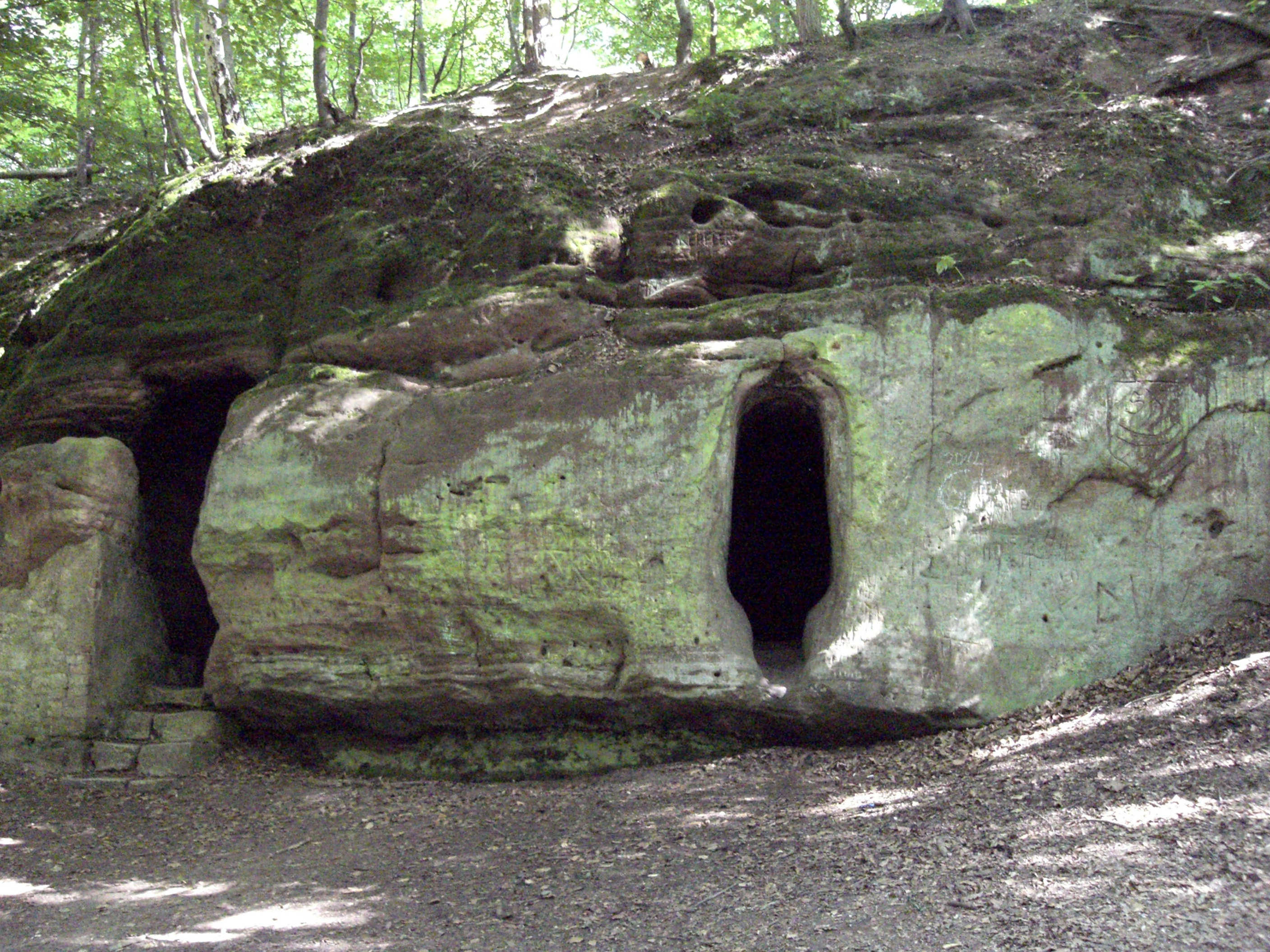 Daneil's cave (Daneilshöhle), Huy, Saxony-Anhalt, Germany